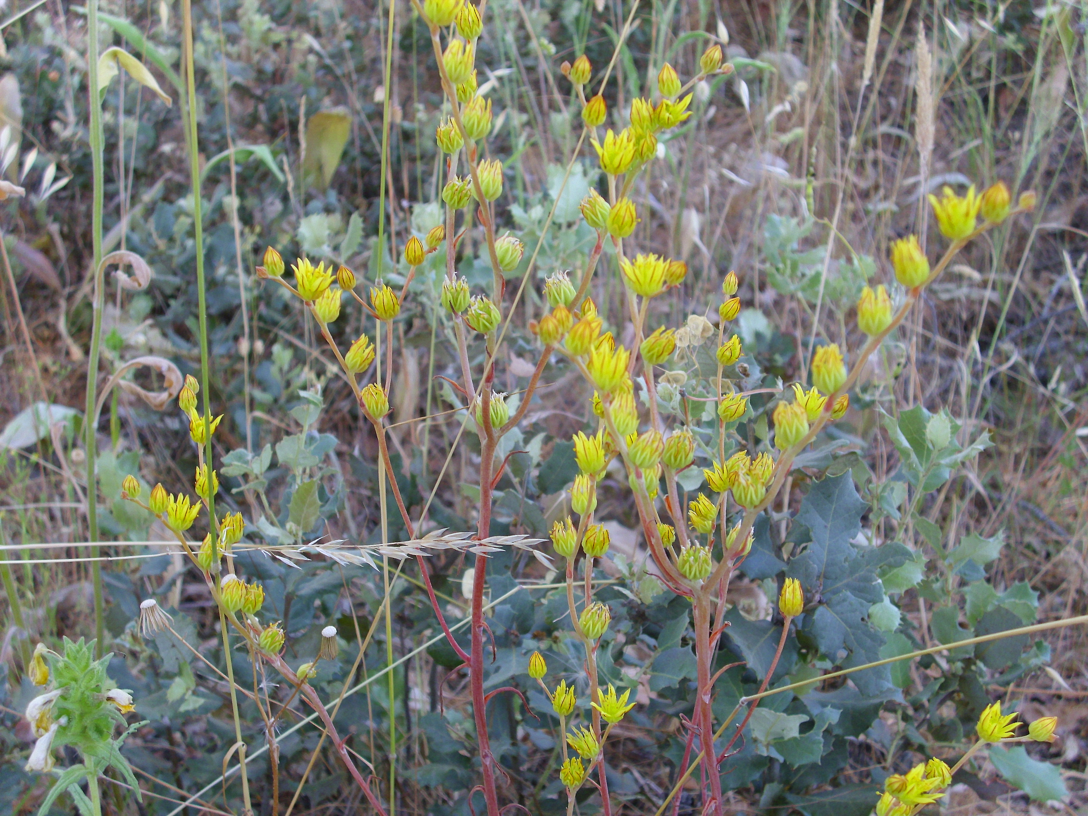 Sedum amplexicaule habit, Dehesa Boyal de Puertollano, Spain